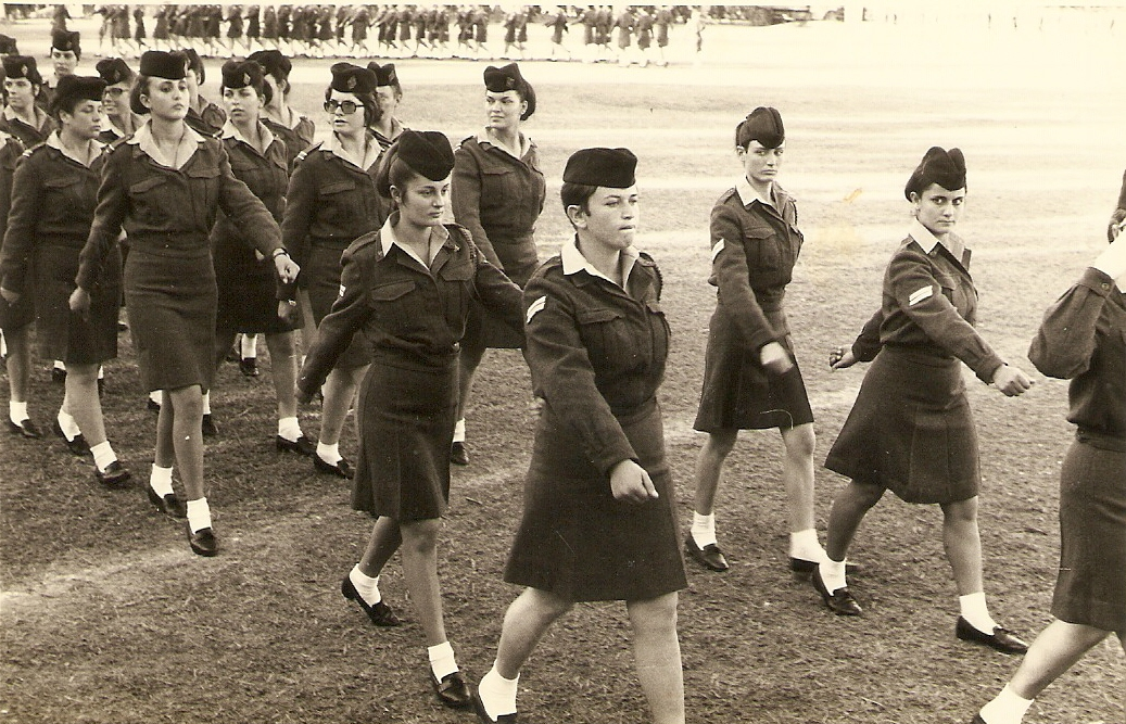 End of basic training at the top of the staff walking